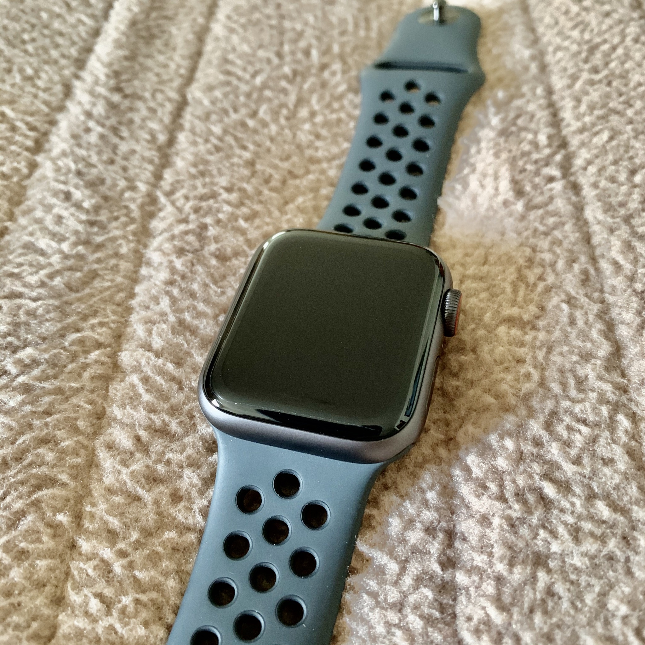 Nike Edition of Apple Watch Series 4